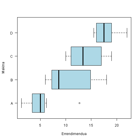 Boxplot created with R